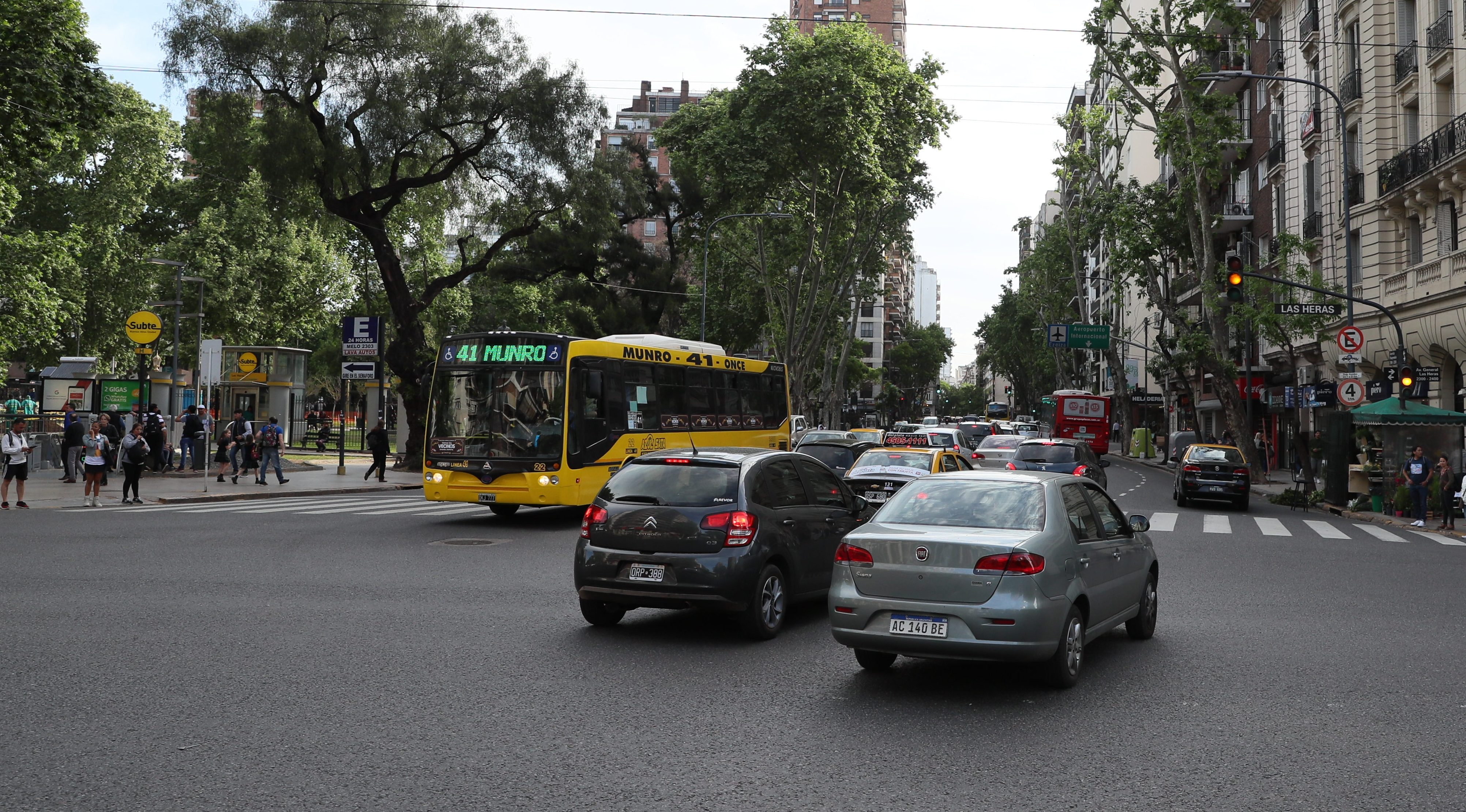 Sightseeing in Buenos Aires